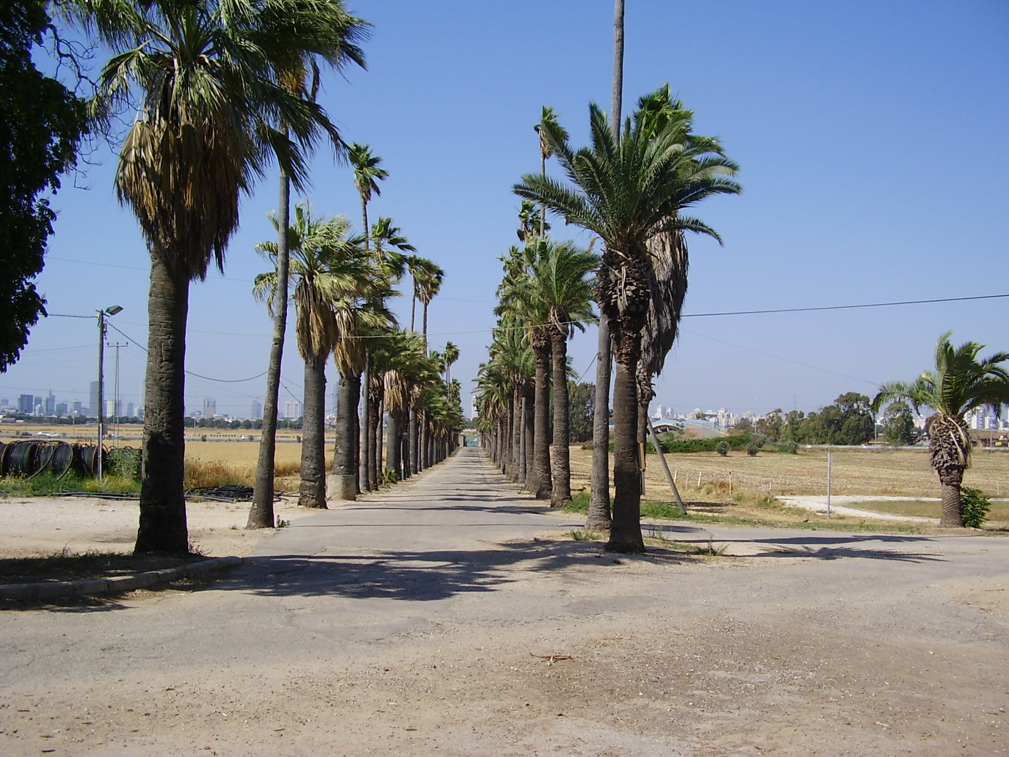 palms trees in mikve israel